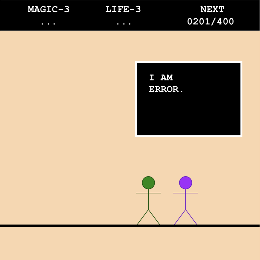 Sketch of the original Zelda II: The Adventure of Link scene in which the "I am Error" sentence appears.